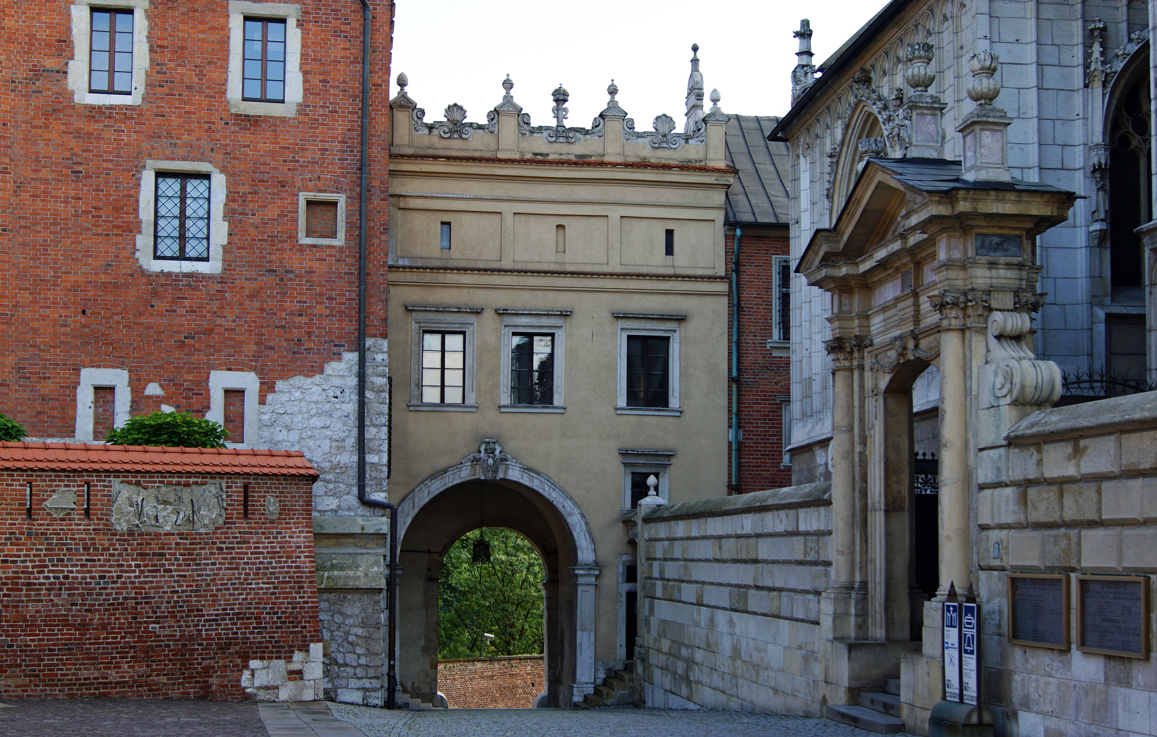 Wawel Hill, Gate of the Vasas (view from S), Old Town, Kraków, Poland